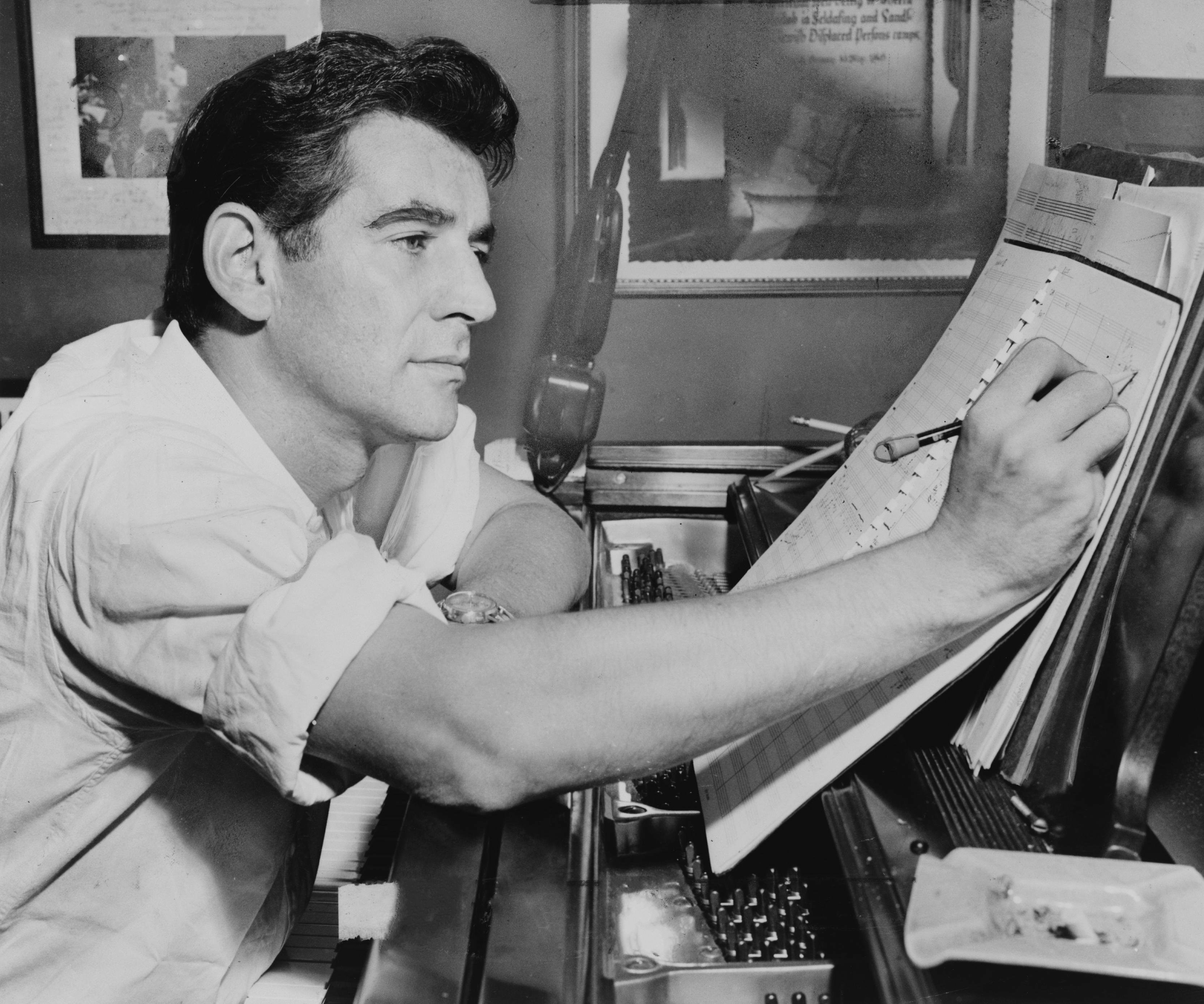 Leonard Bernstein seated at piano, making annotations to musical score